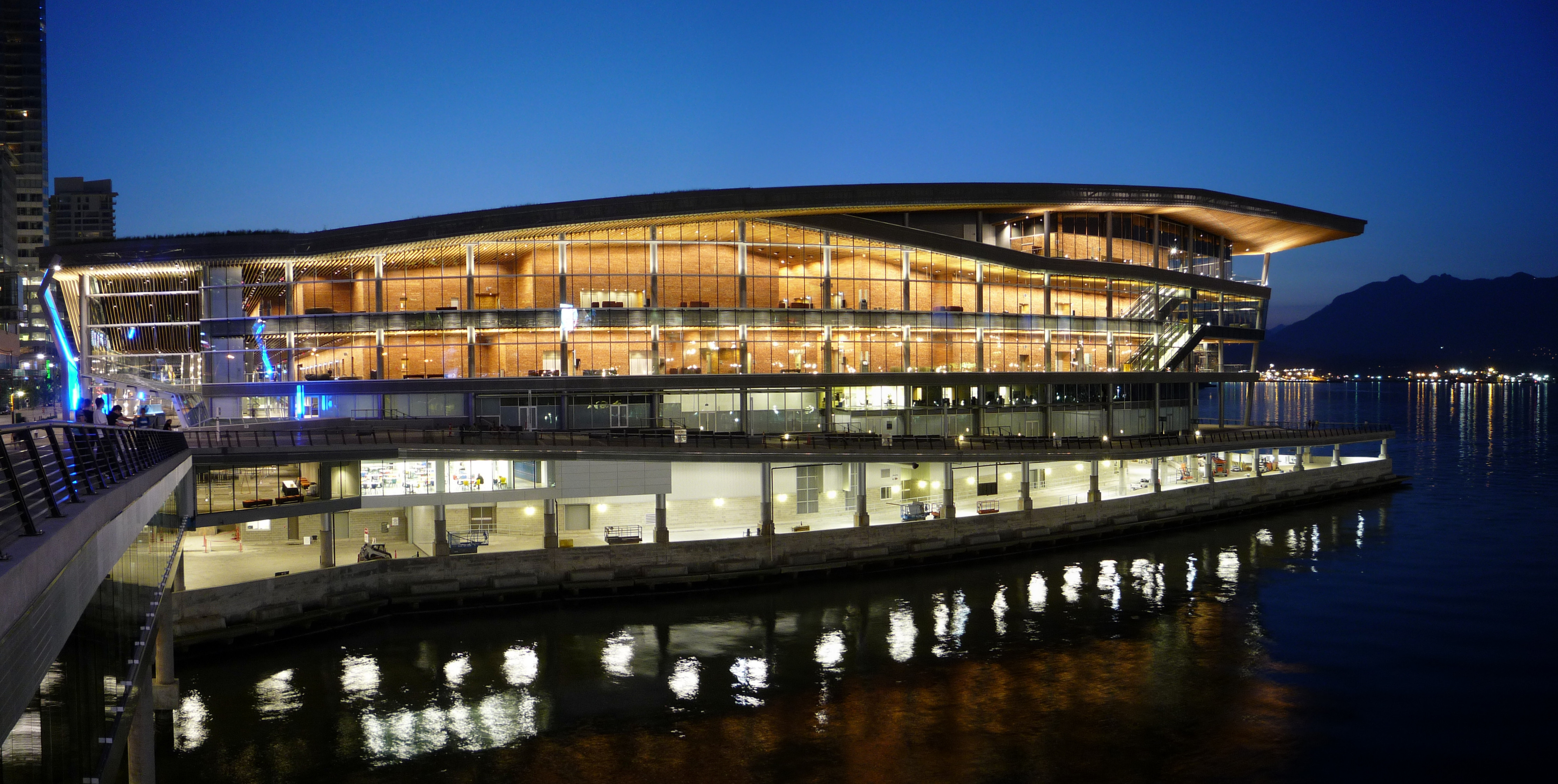 The West building in the evening, Vancouver Convention Centre, Vancouver, British Columbia, Canada.